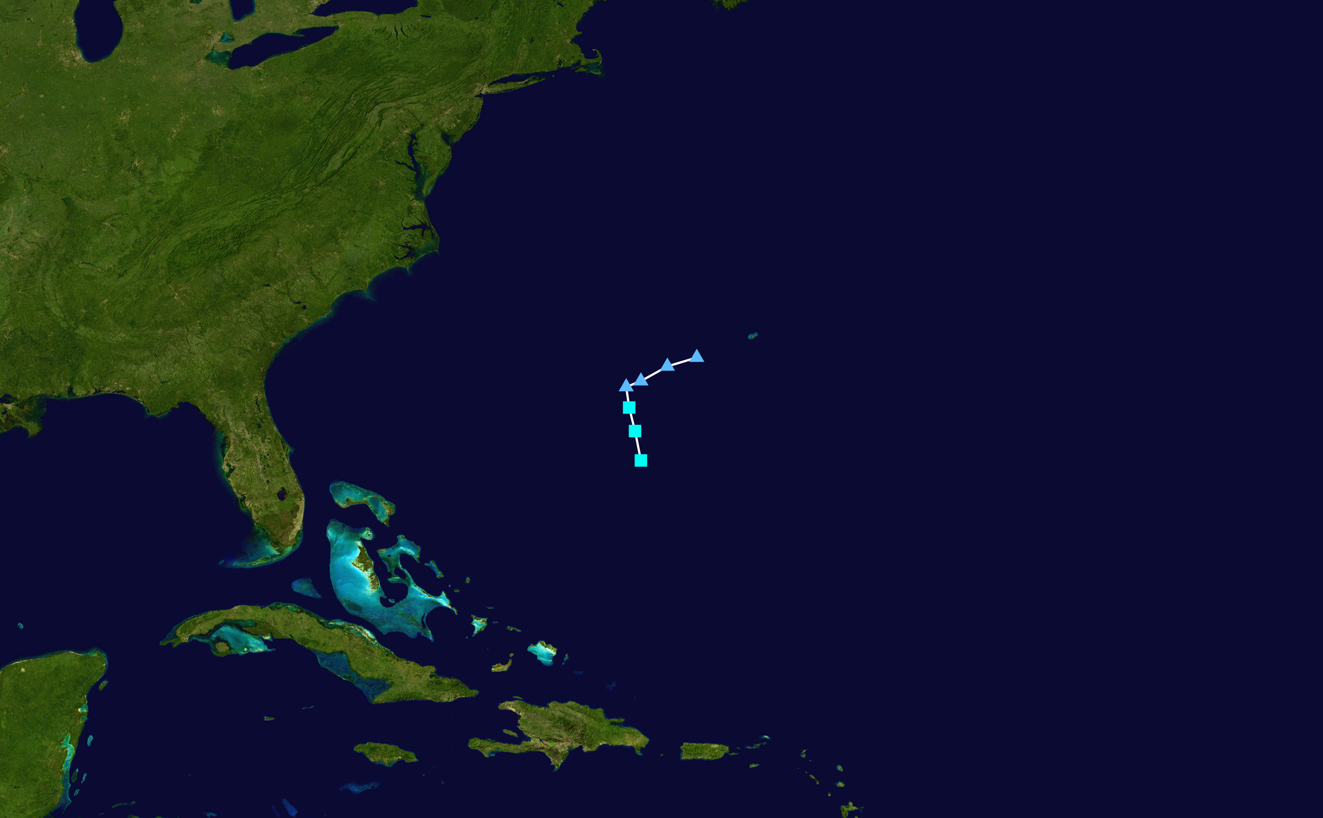 Track map of Subtropical Storm Andrea of the 2019 Atlantic hurricane season. The points show the location of the storm at 6-hour intervals. The colour represents the storm's maximum sustained wind speeds as classified in the Saffir–Simpson scale (see below), and the shape of the data points represent the nature of the storm, according to the legend below. Saffir–Simpson scale Tropical depression≤38 mph≤62 km/h Category 3111–129 mph178–208 km/h Tropical storm39–73 mph63–118 km/h Category 4130–156 mph209–251 km/h Category 174–95 mph119–153 km/h Category 5≥157 mph≥252 km/h Category 296–110 mph154–177 km/h Unknown Storm type Tropical cyclone Subtropical cyclone Extratropical cyclone / Remnant low / Tropical disturbance / Monsoon depression